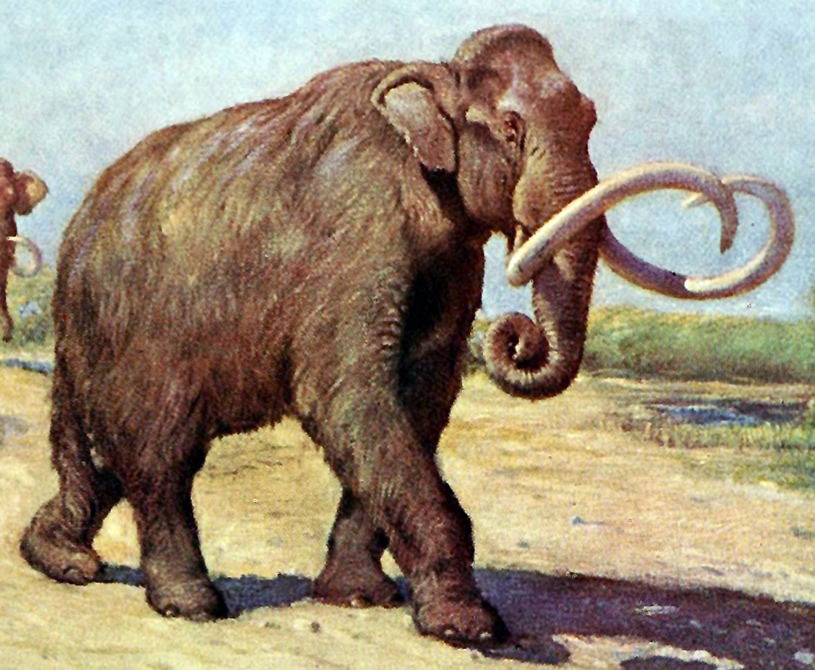 Crop of file in filename